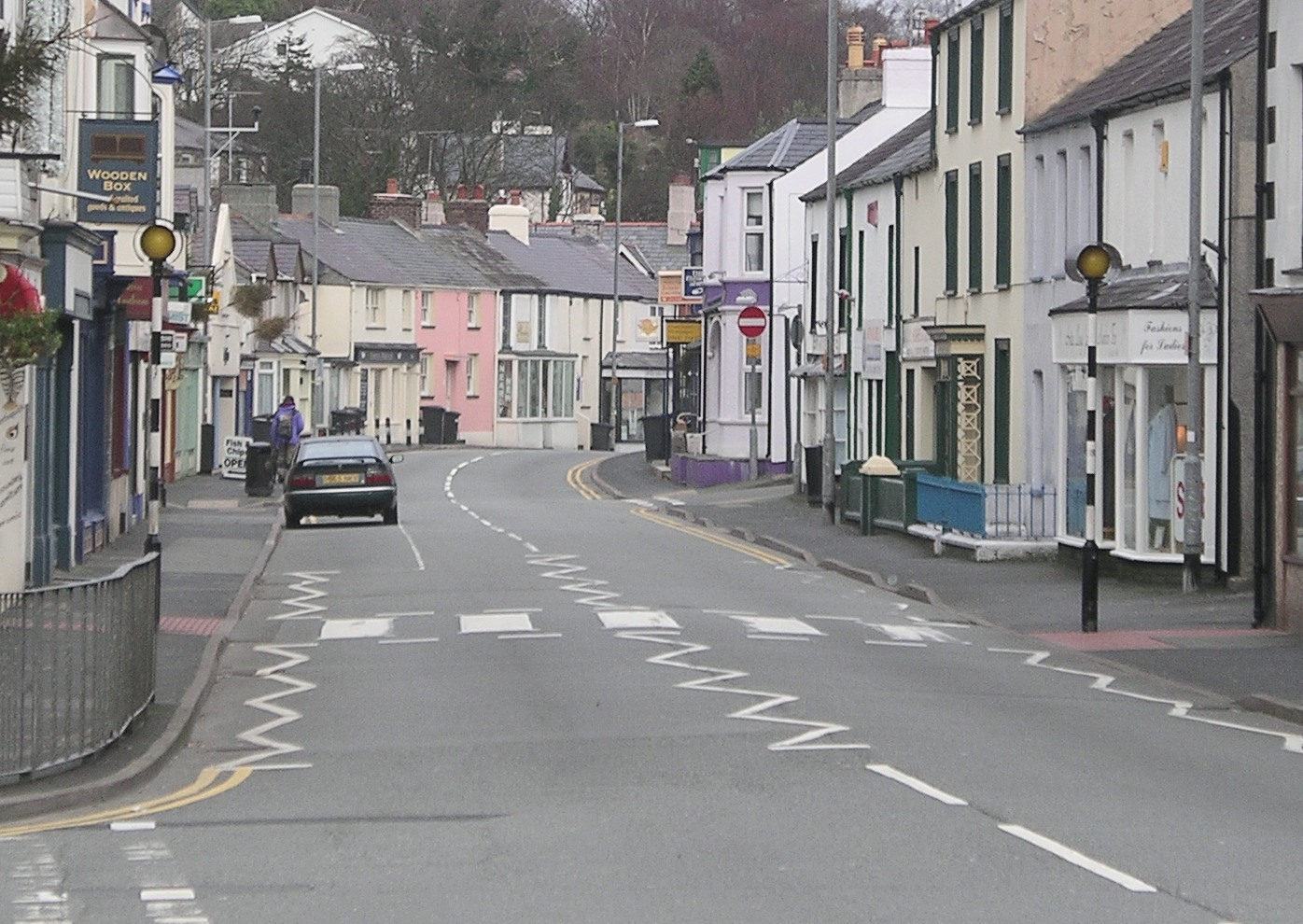 Menai Bridge, Anglesey - the _High-Street Author: Andrew Dixon. Location: The high street looking west, Menai Bridge, Anglesey Source: Personal photograph taken by Author Description: Menai Bridge high street on a wet January Sunday afternoon - 9th January 2005 Technical data: Pentax Optio555 digital camera. 1/100sec @ f2.8